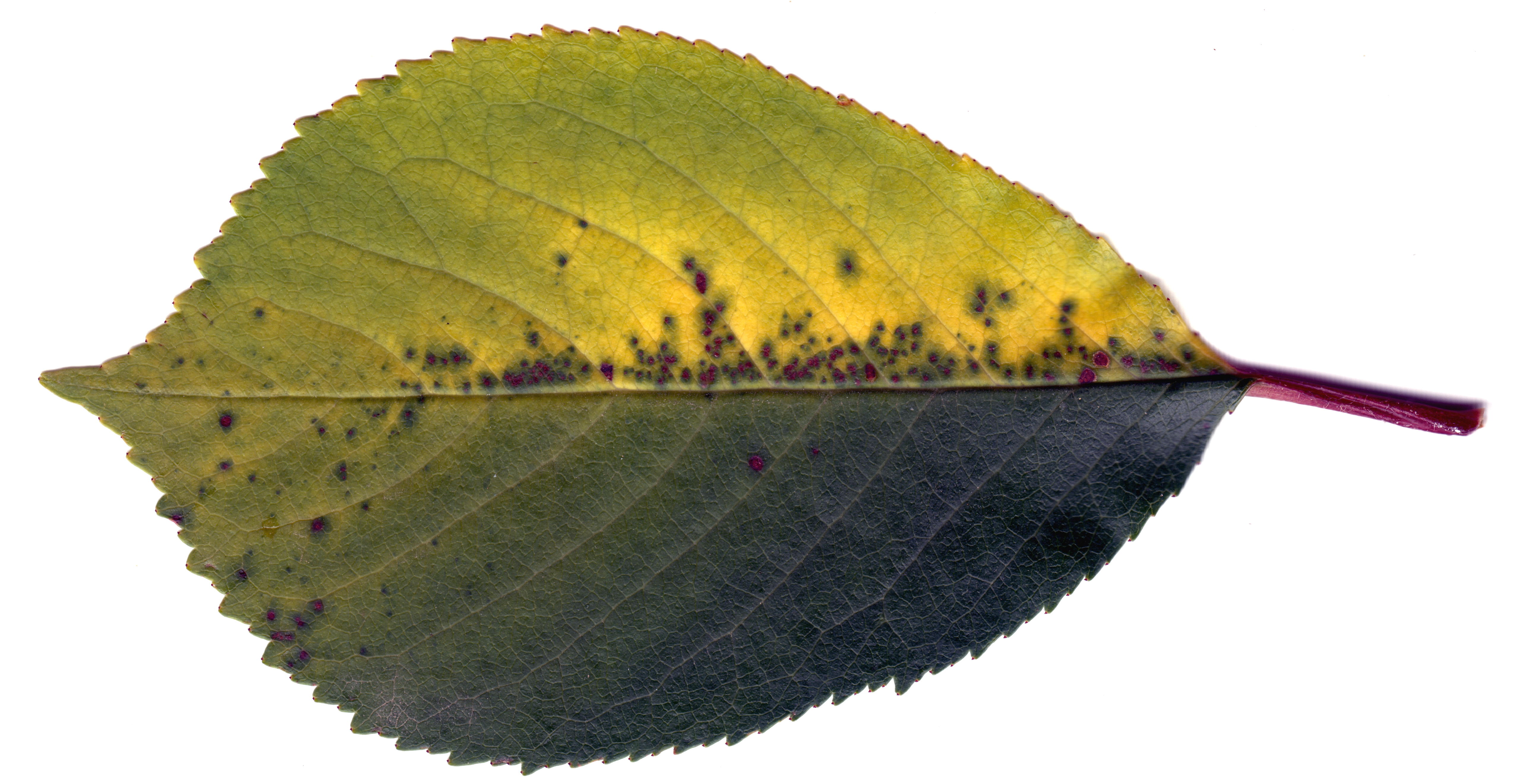 Сherry leaf spot